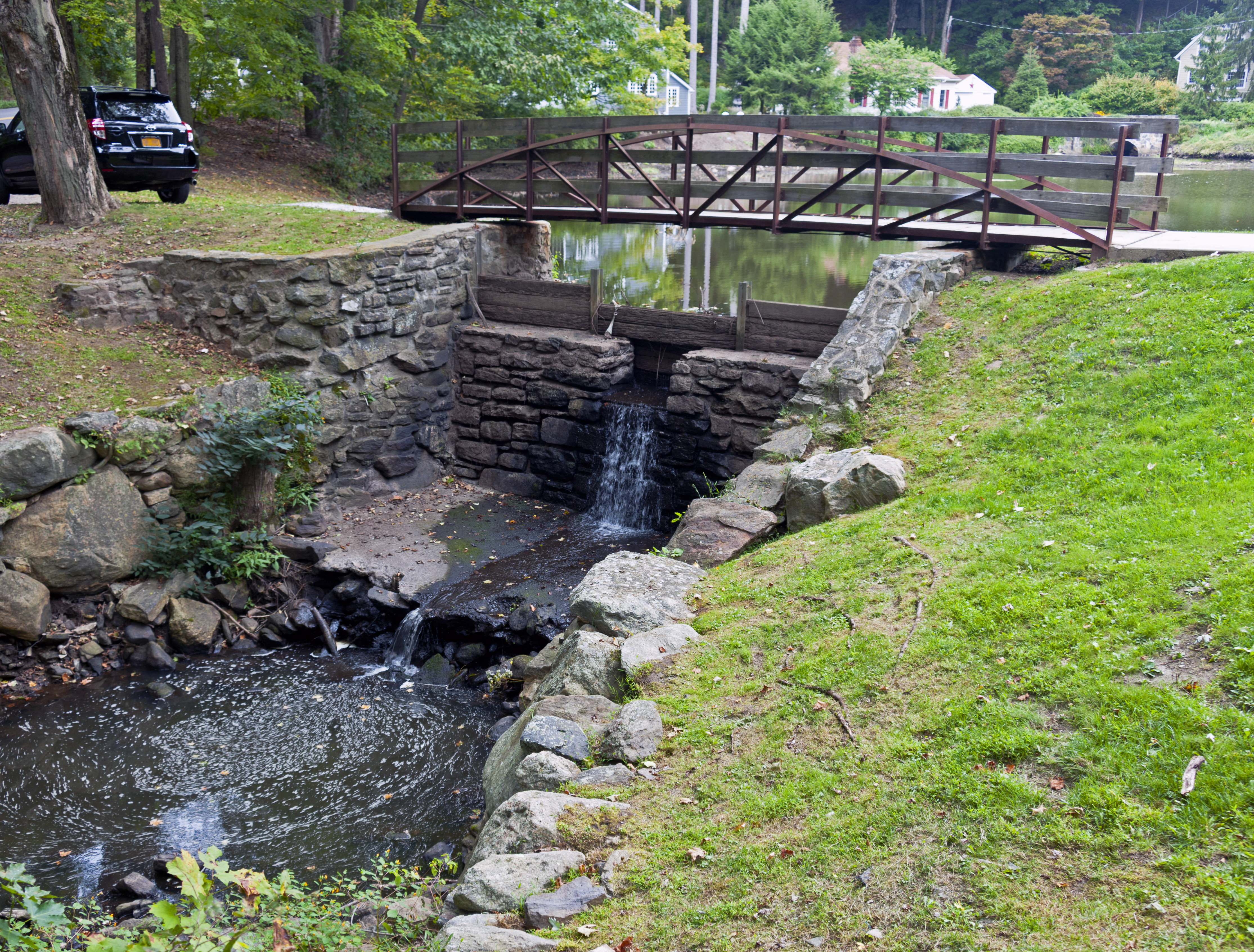 Saw Mill River flowing over dam and out of Duck Pond, Chappaqua, NY, USA. Vehicle license plate number blurred to protect owner privacy